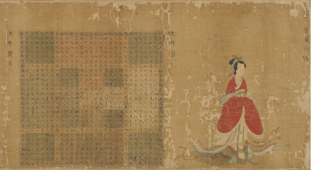 Portrait of Lady Su Hui with a Palindrome in the Manner of Zhu Shuzheng (copy after a Yuan-dynasty painting), from a section of a larger handscroll